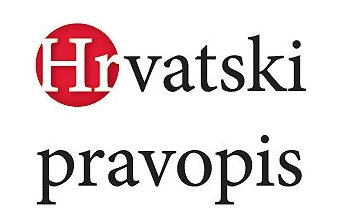 Hrvatski pravopis IHJJ-a